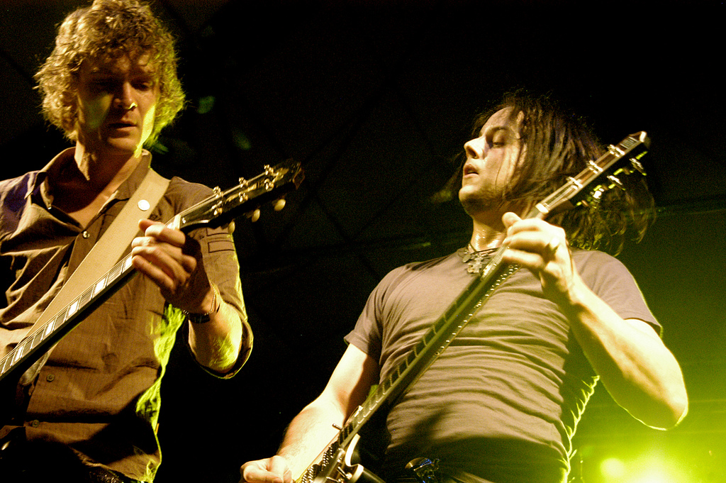 The Raconteurs, Accelerator, Stockholm